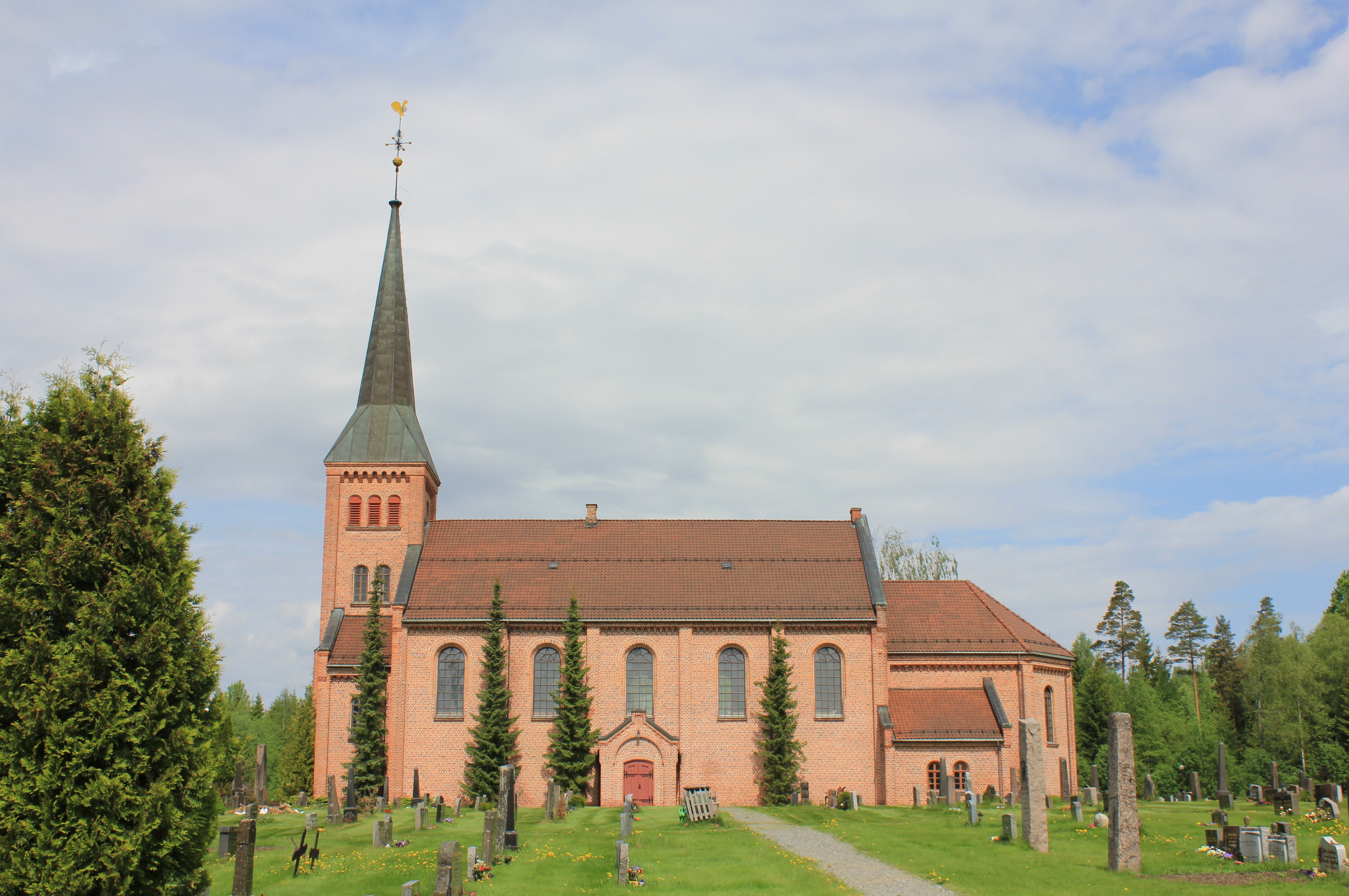 Nes Church, Akershus, Norway.